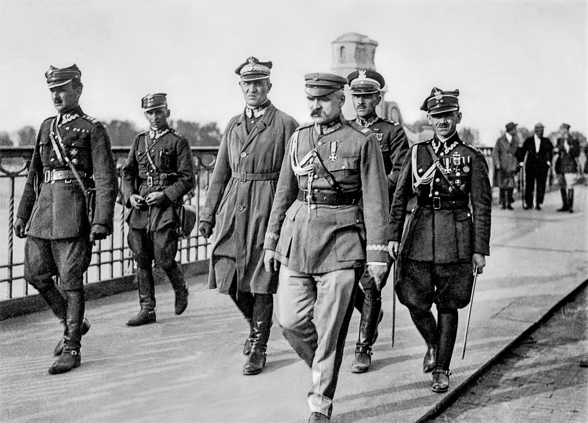 Piłsudski during coup d'etat on Poniatowski Bridge in Warsaw. Left to right: ppłk Kazimierz Stamirowski, por. Marian Żebrowski, gen. Gustaw Orlicz-Dreszer, Józef Piłsudski, mjr Włodzimierz Jaroszewicz, por. Michał Galiński